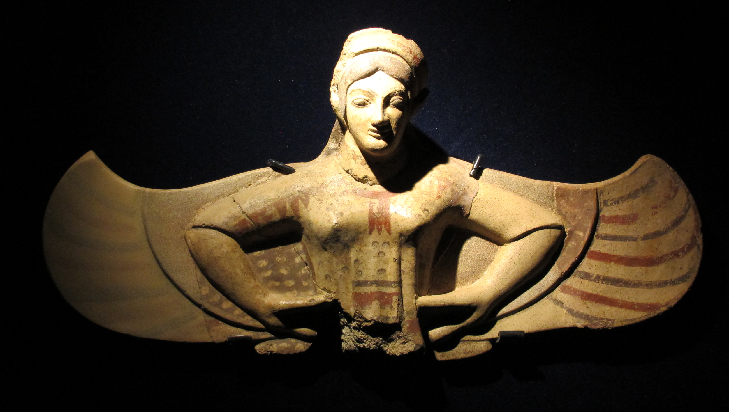 Monsters Exhibition (Palazzo Massimo, Rome, 2014)